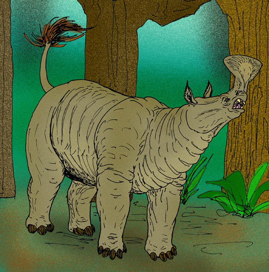 Reconstruction of the Mongolian brontothere Embolotherium andrewsi